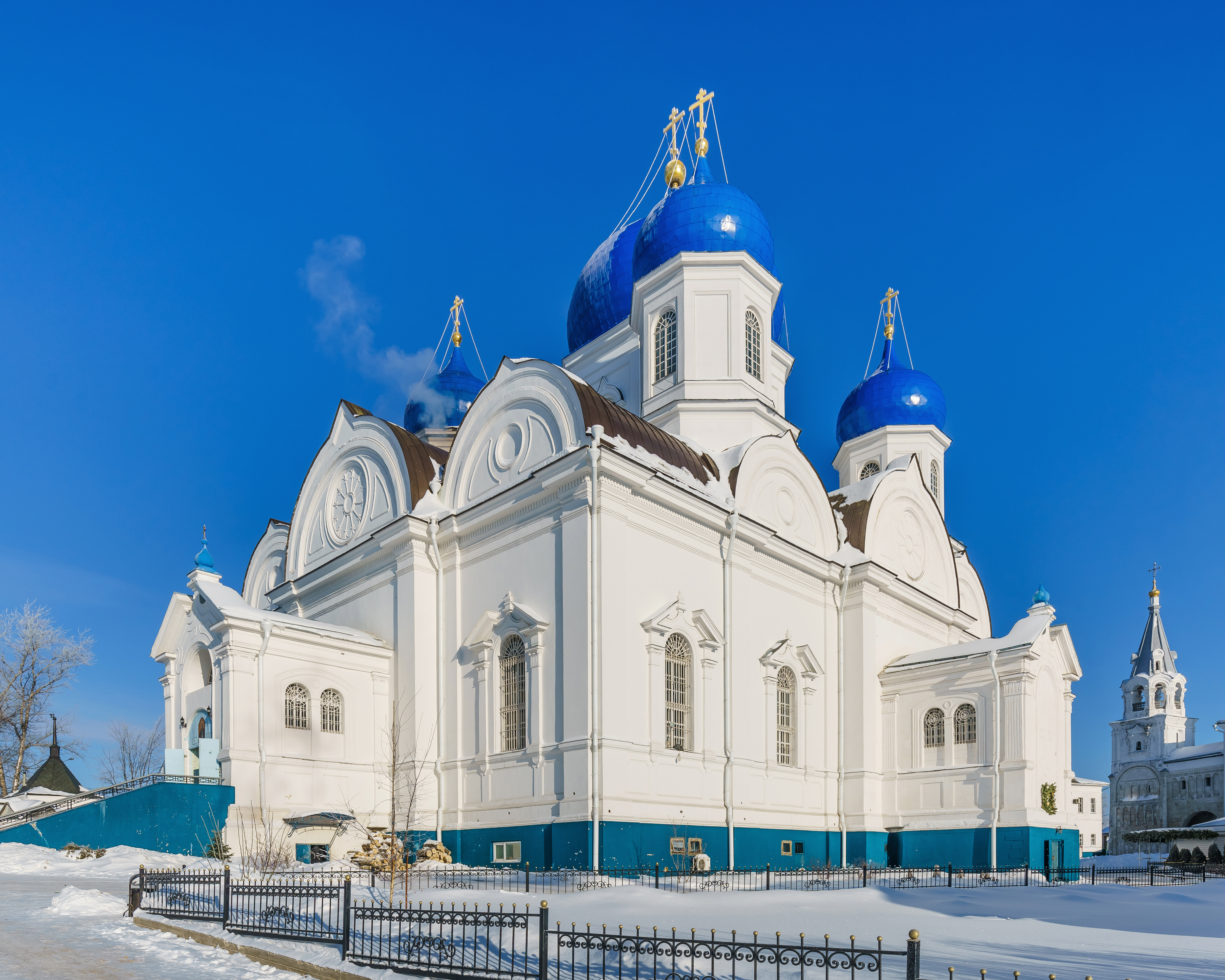 Bogolyubsky Monastery in Bogolyubovo near Vladimir, Russia